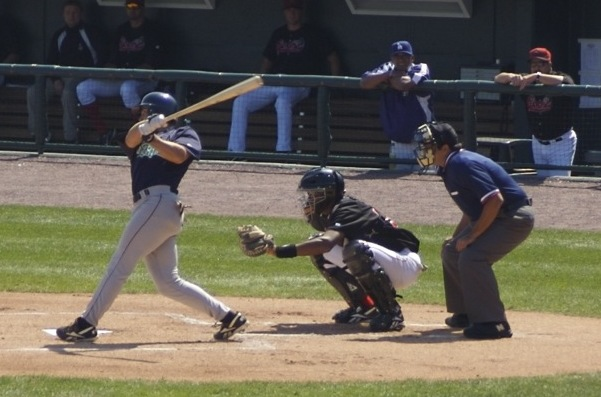 Chris Pettit of the Cedar Rapids Kernels swings at a pitch while Kenley Jansen of the Great Lakes Loons catches during a 2007 game.